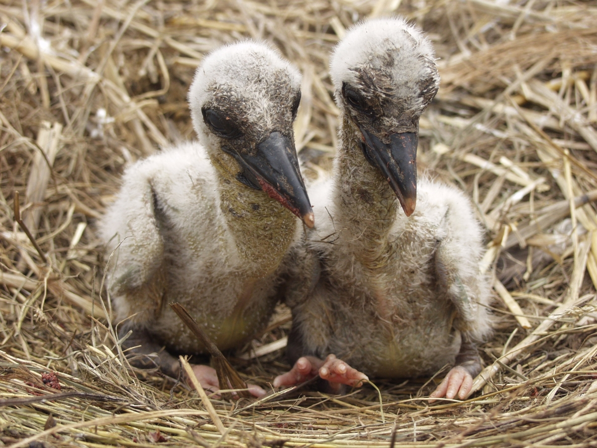 White stork nestlings, Gyirmót, Hungary